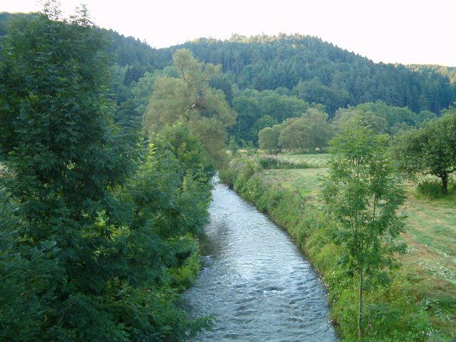 The river Broel